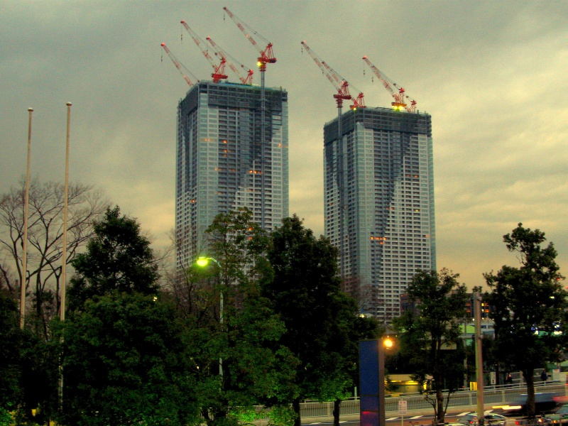 THE TOKYO TOWERS, Kachidoki, Tokyo, Japan